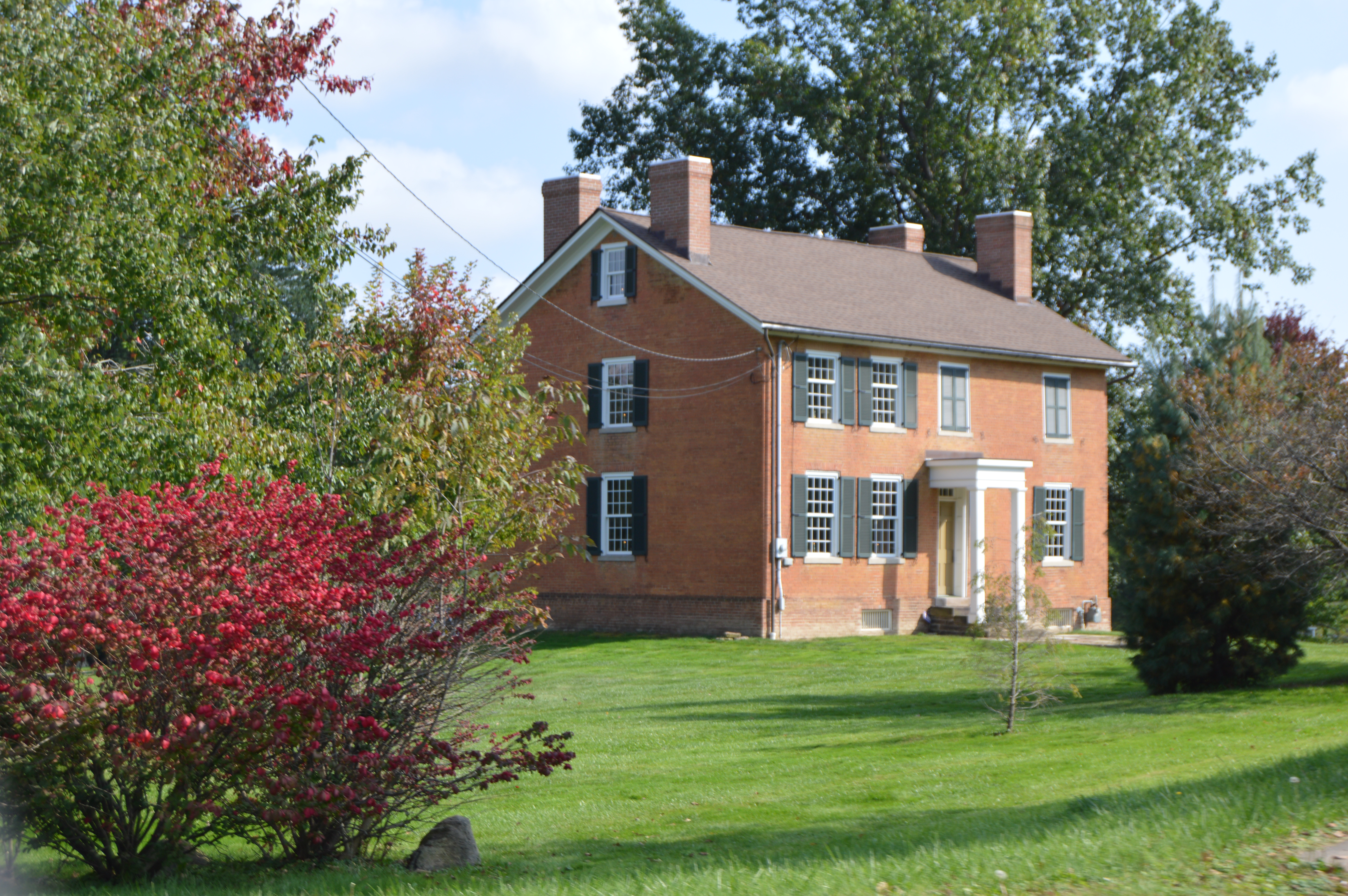 Northern end and western front of the William Woodrow House, located at 138 Champion Street in Champion Township, Trumbull County, Ohio, United States. Built in 1828, it is listed on the National Register of Historic Places.